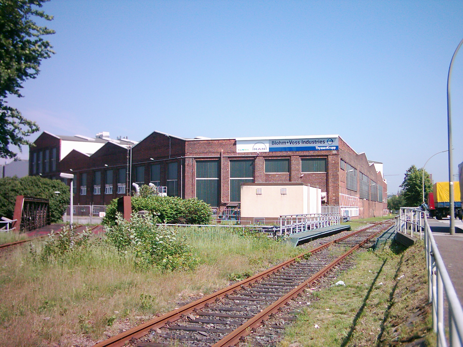 Blohm + Voss, Hamburg, Germany.